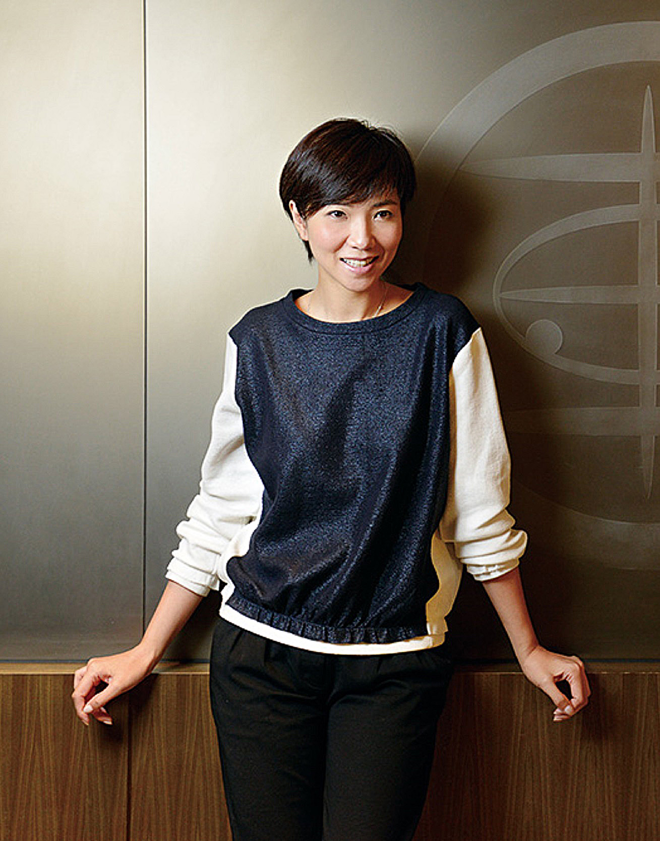 Cantonese restaurant, favoured by suits, serves home-style dishes and a small but delectable selection of dim sum. The crispy barbecued pork bun is a clever take on the char siu bao . Operated by renowned Hong Kong singer & actress Stephanie Che.